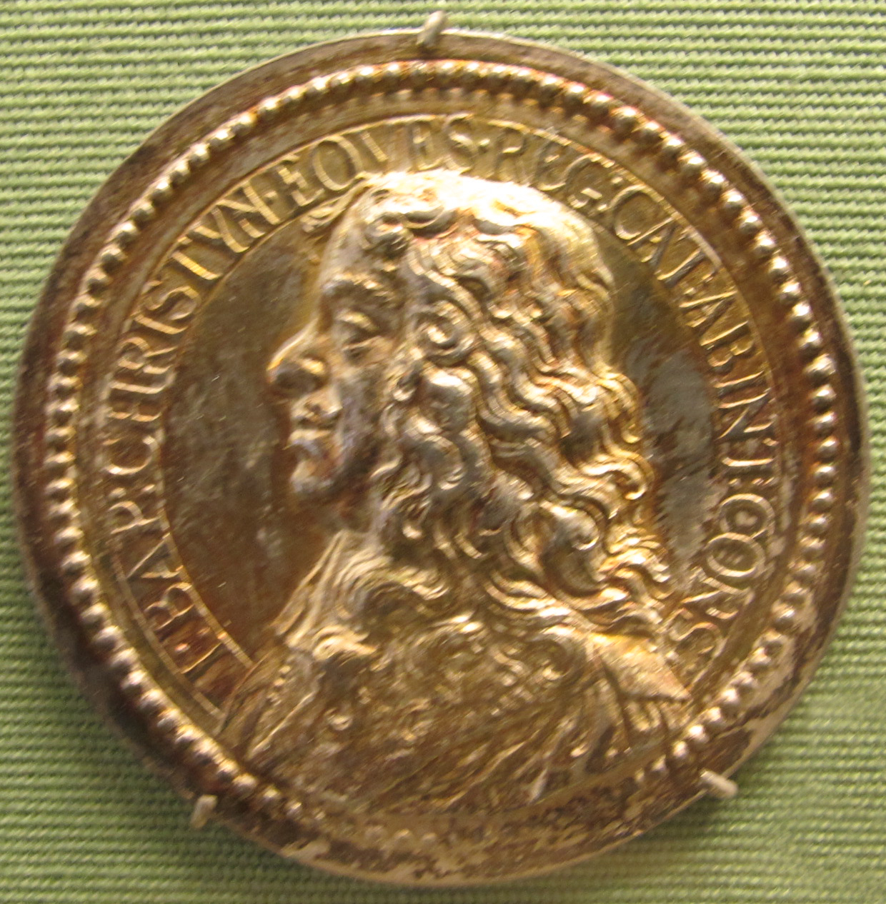 Johann Baptist Christyn, arg, 1674